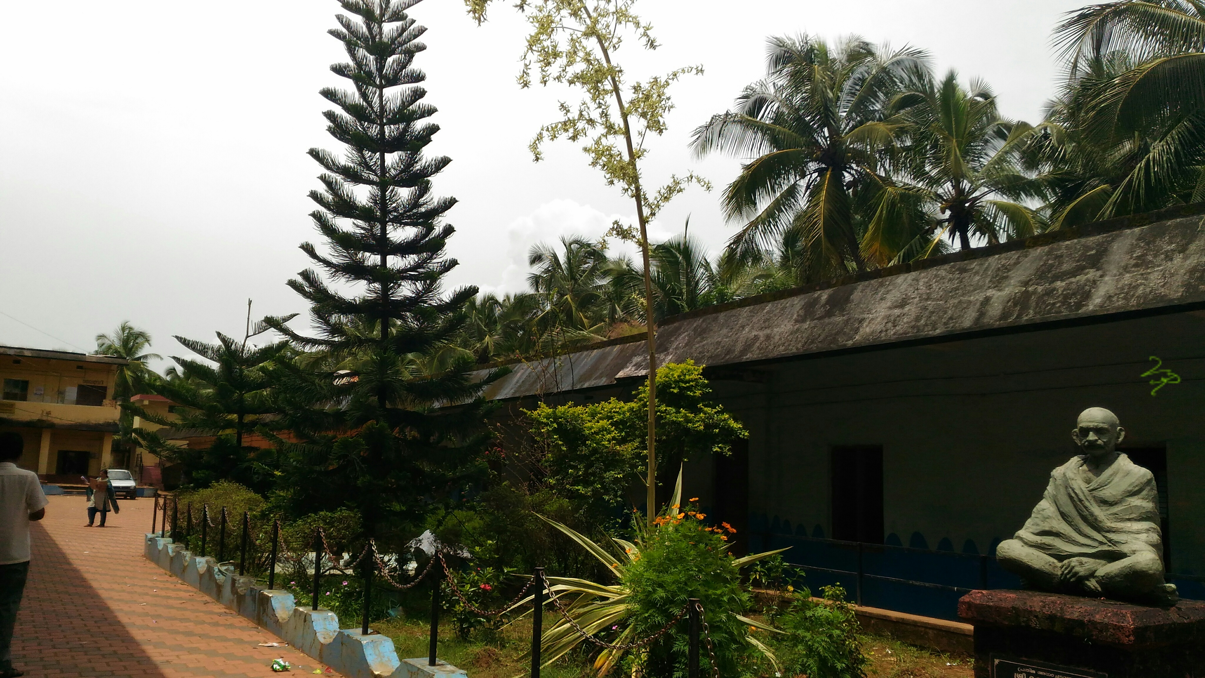 12006_gvhss_Kanahngad_Kasaragod dt